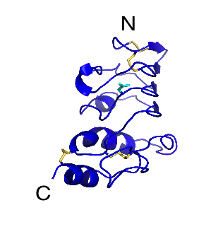 Ribbon diagram positioned with the N-terminus on the top, concave β-strands on the right and convex loops on the left. Disulphide bonds in the LRRs are indicated in yellow.